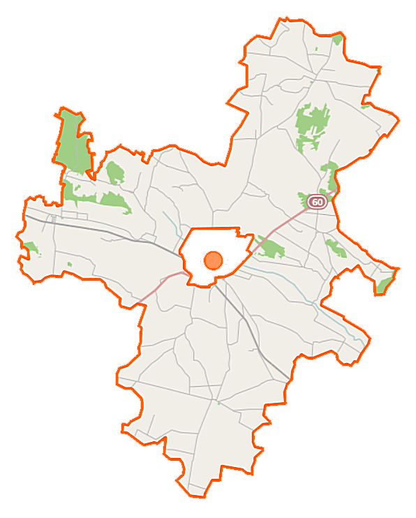 Map of Gmina Raciąż, Poland This map of Raciąż (gmina) was created from OpenStreetMap project data, collected by the community. This map may be incomplete, and may contain errors. Don't rely solely on it for navigation. Border coordinates52.905619.9498←↕→20.278052.6581